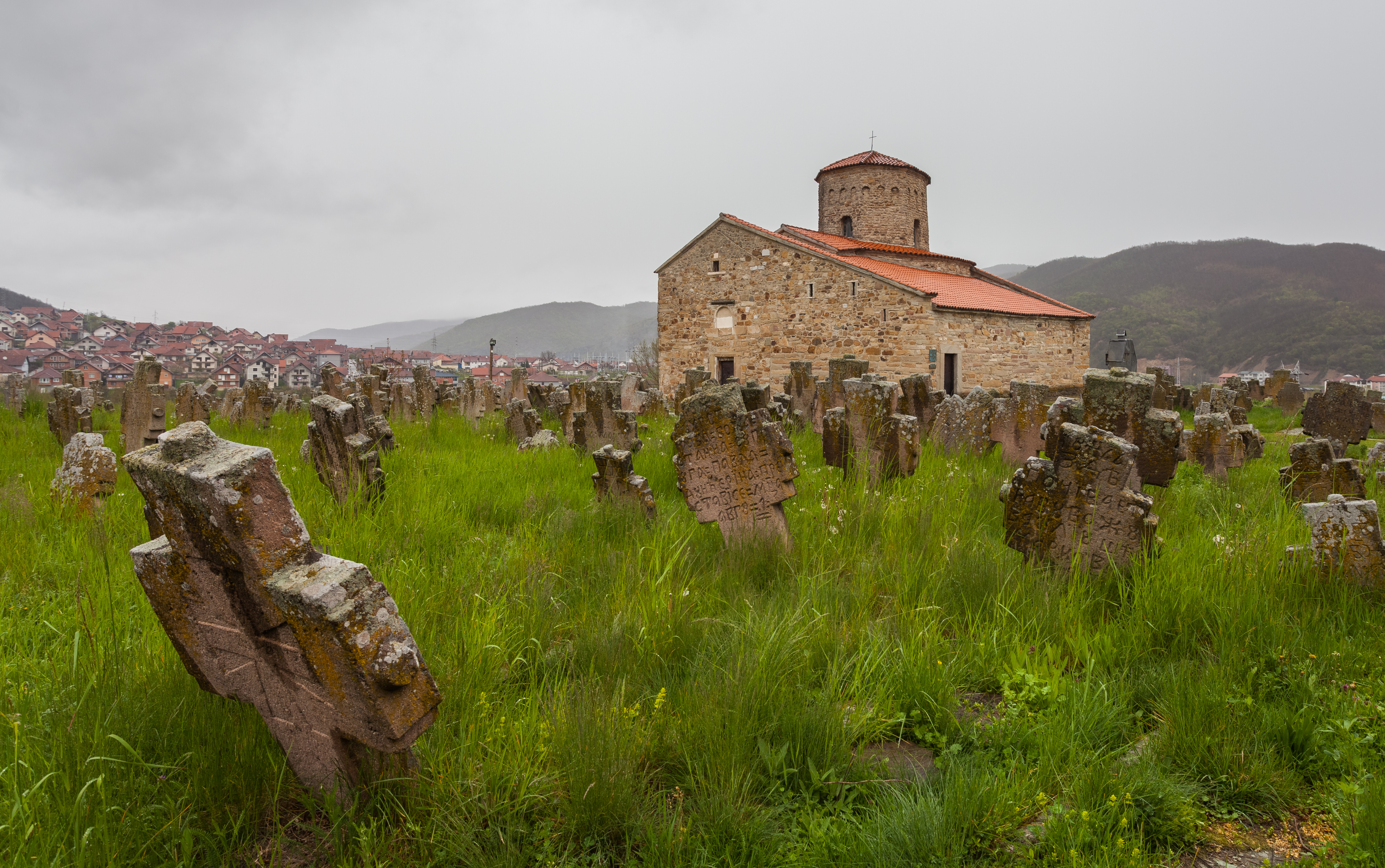 Church of St Peter, Novi Pazar, Serbia